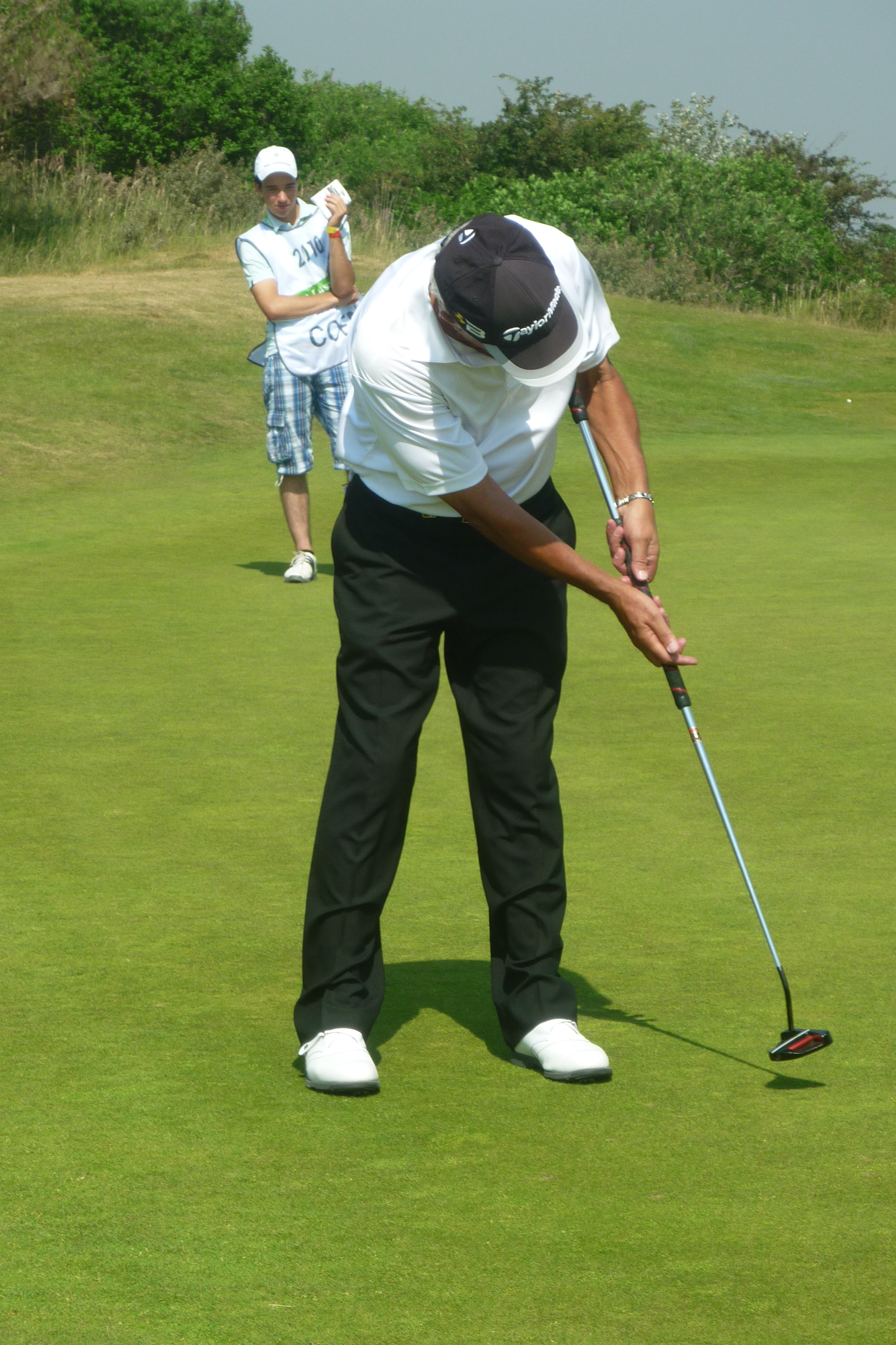 Horacio Carbonetti and his long putter at the Van Lanschot Senior Open